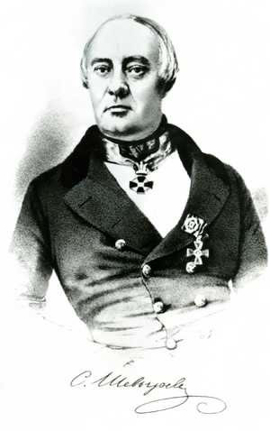 Russian author Stepan Petrovich Shevyrev.